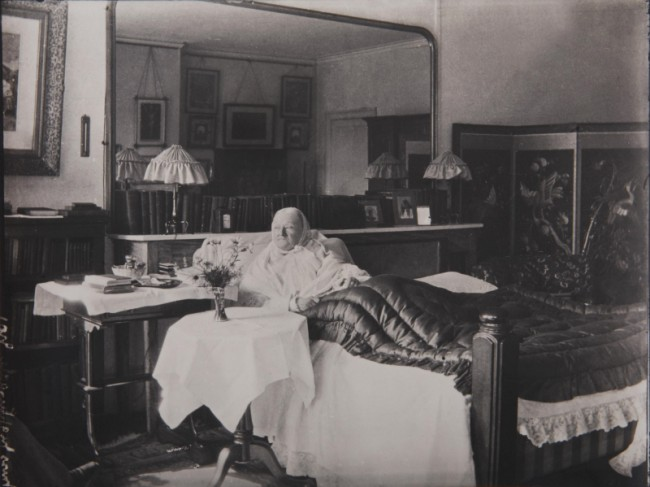 This extraordinary, never seen before photograph of nursing pioneer Florence Nightingale shortly before her death, is set to be sold at auction. 10th Sept 2008.The rare black and white image of a silver-haired Florence shows her in the imposing bedroom of her home just off London's Park Lane, shortly before she died at the age of 90. Florence Nightingale - known as the Lady of the Lamp - worked selflessly as young nurse during the Crimean War and later, as a hospital reformer, won an everlasting place in British history.Her nursing skills and tireless campaigning to clean up filthy Army field hospitals in the Crimea dramatically slashed the death rates of wounded soldiers from typhoid and cholera between 1854 and 1856. Now the evocative photograph, which depicts a camera-shy Florence as she neared the end of her life in 1910, is due to go under the hammer. It shows an ailing Florence resting in the grand bedroom of her home in South Street, a stone's throw from London's Hyde Park.